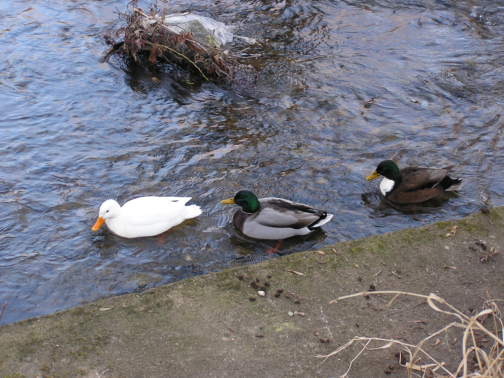 Mallards of several colorations on the Erlenbach, the left one is probably a female.